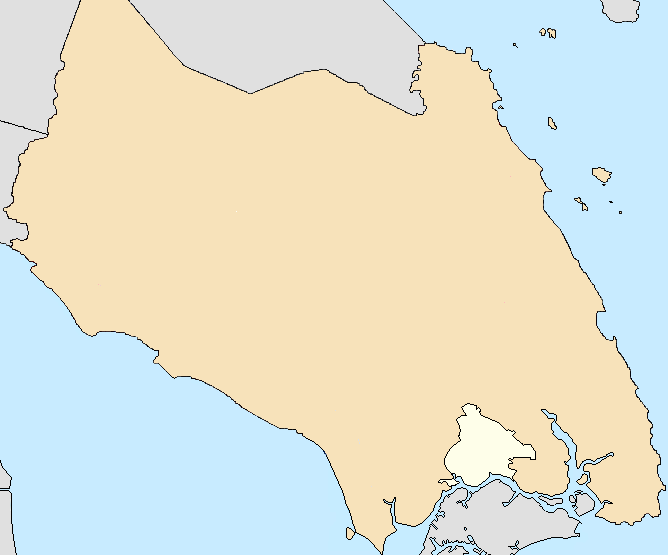 Location map of Johor Bahru, the capital city of the Malaysian state of Johor.